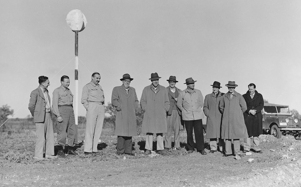 British nuclear tests in Australia - Atomic test site at Maralinga - Visit of Maralinga Committee - From left to right - Mr E L D White, Mr H A Wills, Mr W A S Butement, Mr F A O'Connor, Dr B G Gates, Dr D H Black, Mr L Carter, Mr W O'Connor, Mr J Curran, Group Captain B A Eaton - July 1955 - Photo 690